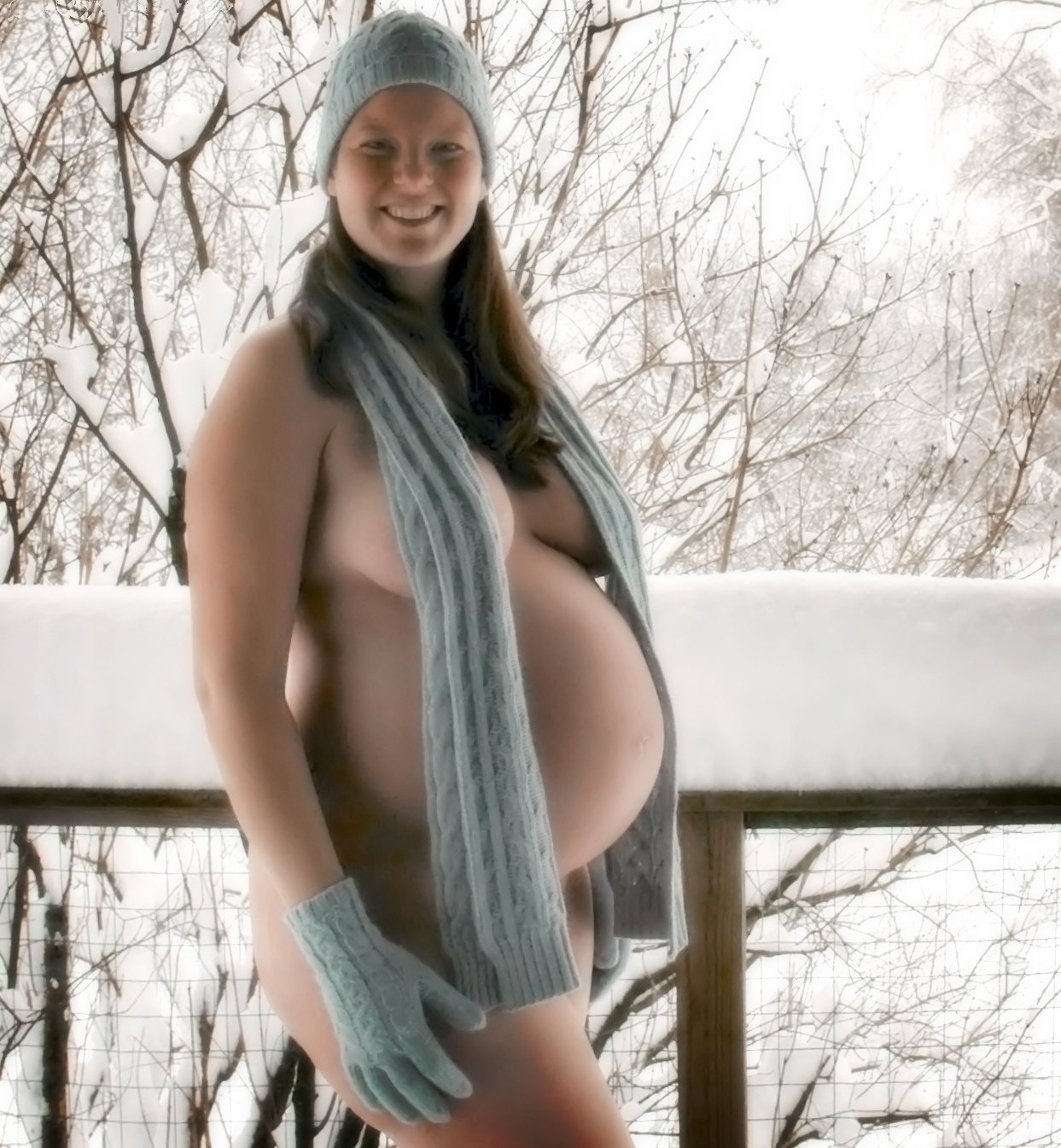 This was only 7 months.